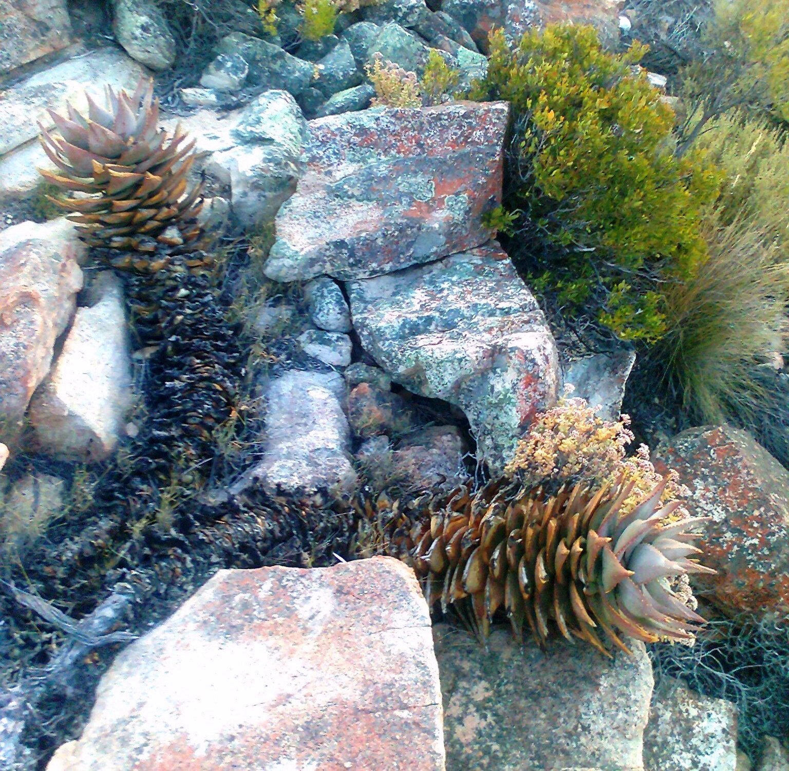 Aloe perfoliata in Hex River Mountains showing fire damage.